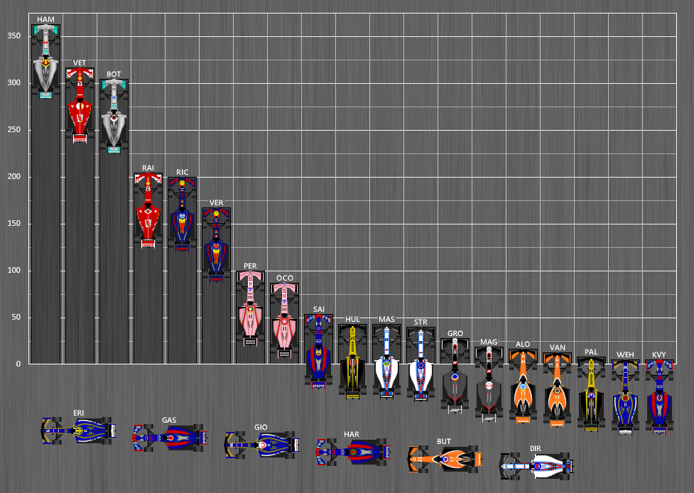 chart of final standings of the 2017 Formula One season